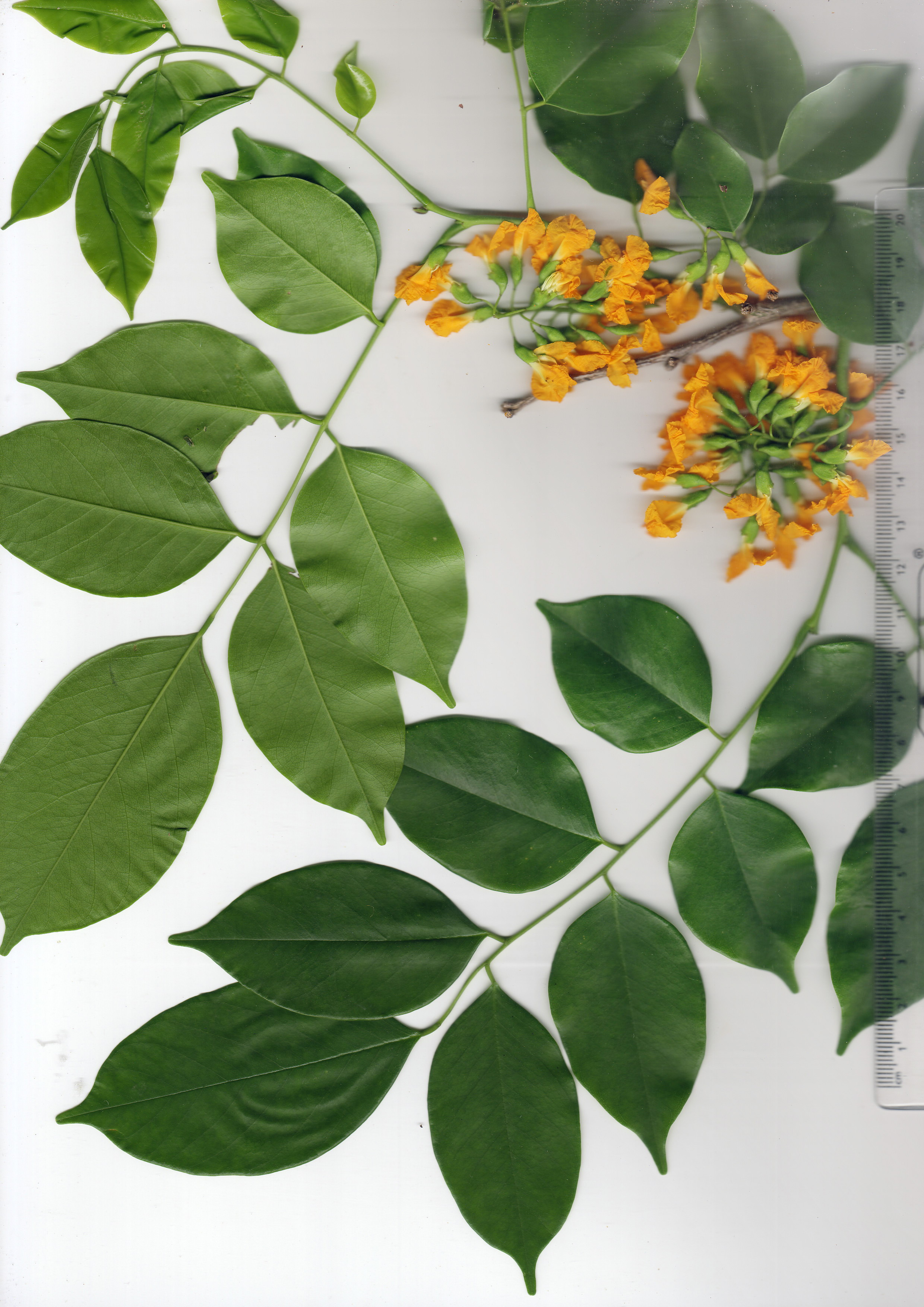 Pterocarpus macrocarpus leaves & flowers, collected Chonburi, Thailand